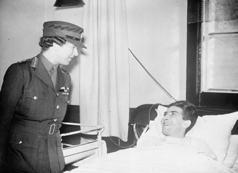 Hrh Princess Royal Visits Rn Hospital Haslar, Gosport, 4 January 1943 HRH The Princess Royal having a few words with a patient during her visit to the Royal Naval Hospital Haslar, Gosport.